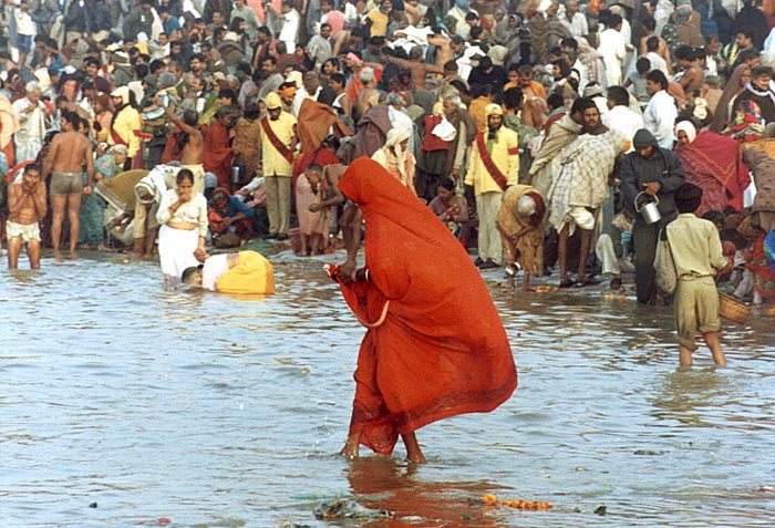 People gathered by the holy Ganga. Marshals can be seen keeping them in line. A woman in the foreground of the picture wades in, another further back bends down to dip herself.